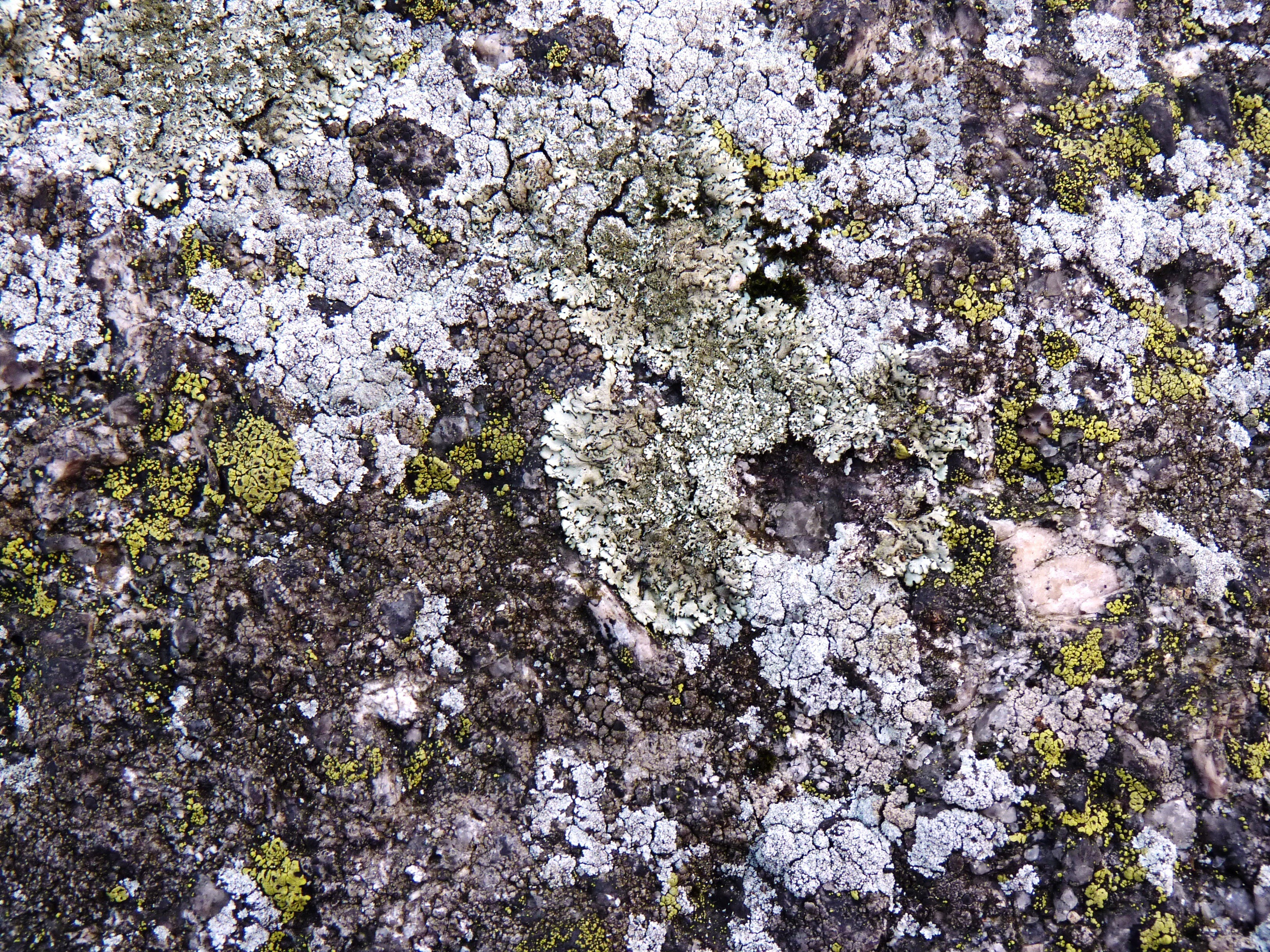 Skalní hrad - lišejníky